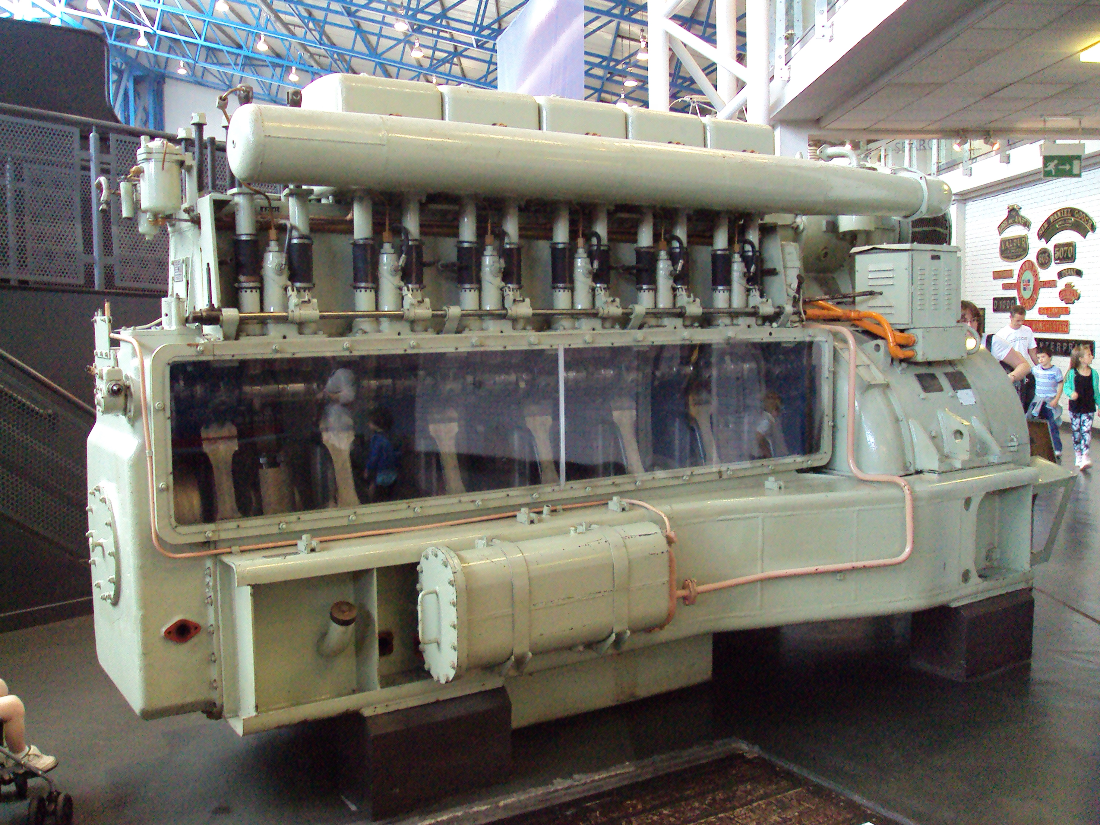 Partially sectioned Sulzer 6LDA28A diesel engine of 1,160 bhp from a Class 24 locomotive. Photo taken at the National Railway Museum, York.